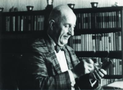 Carl Ludwig Siegel, German mathematician, at Gottingen in 1975.